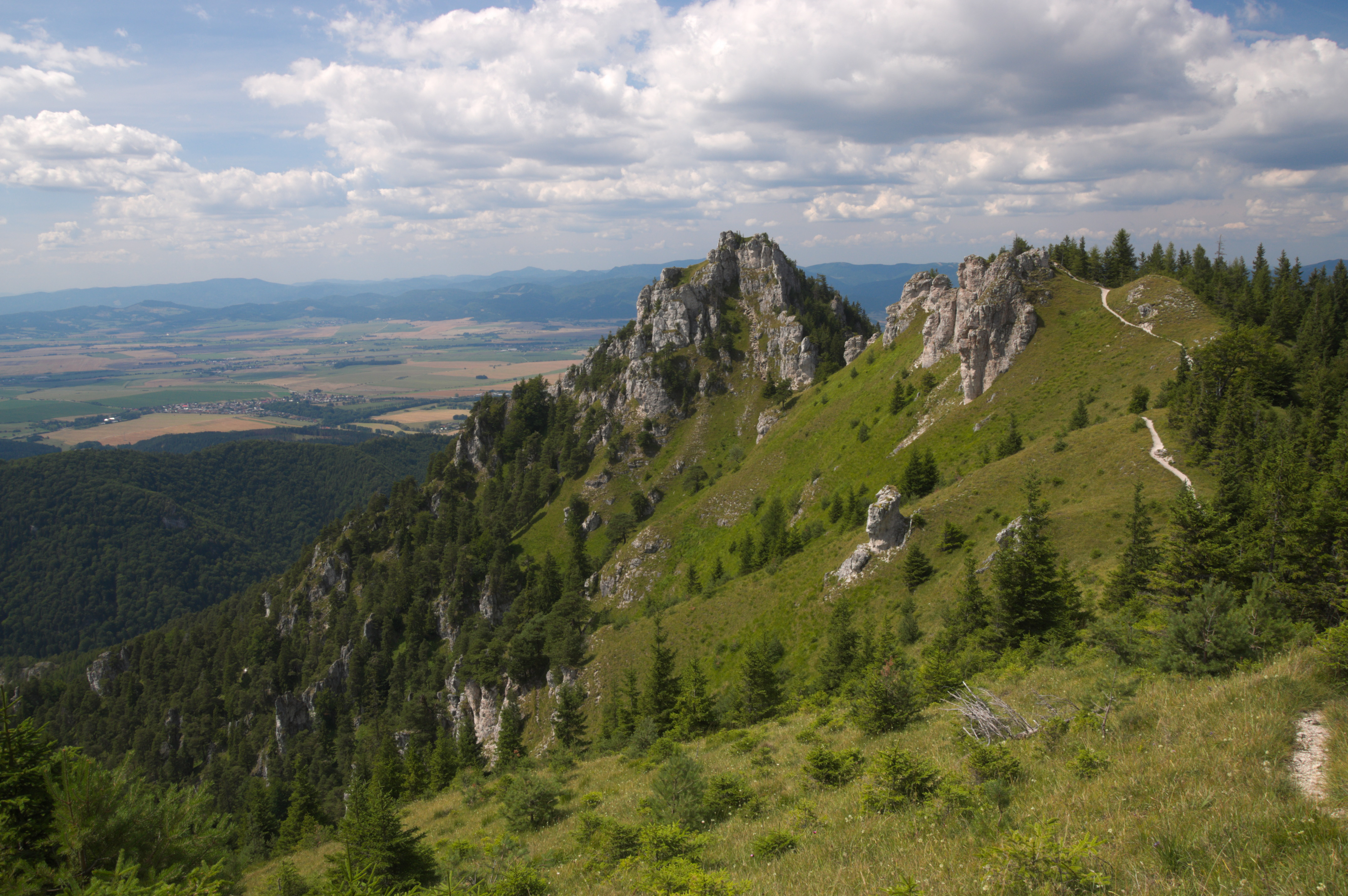 Ostrá mountain in Veľká Fatra mountains, Slovakia